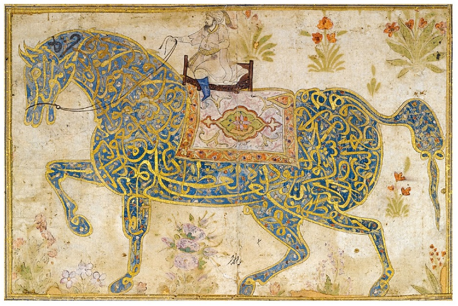 Anonymous - The Throne Verse (Ayat Al-Kursi) in the form of a calligraphic horse (India, Deccan, Bijapur) - 16th century